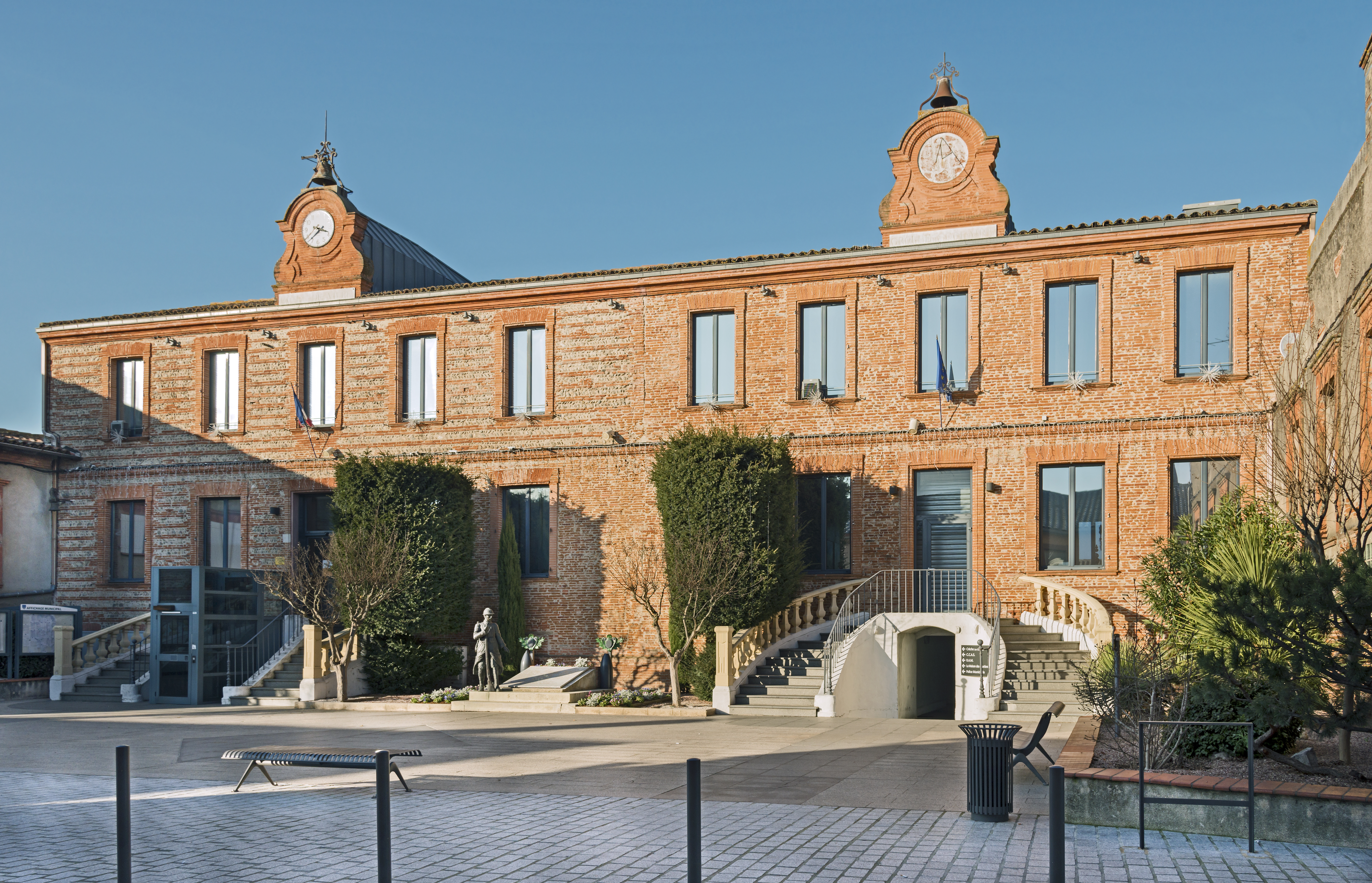 Facade of Léguevin, town hall, Haute-Garonne France